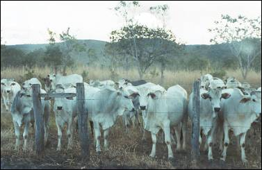 I am the author of this photo taken near Formosa in the 1980's. It is not copyright. Vogensen 09:08, 26 December 2005 (UTC)